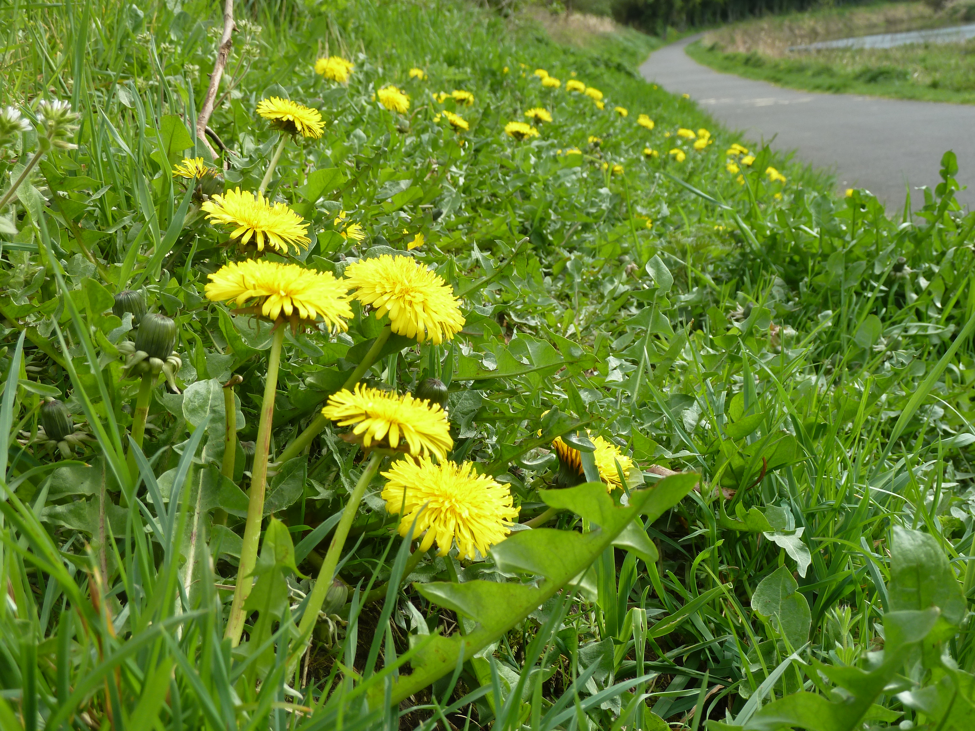 Flora Hildena Taraxacum officinale F.H. Wigg Hilden, Co. Antrim, Ireland. mid April 2014